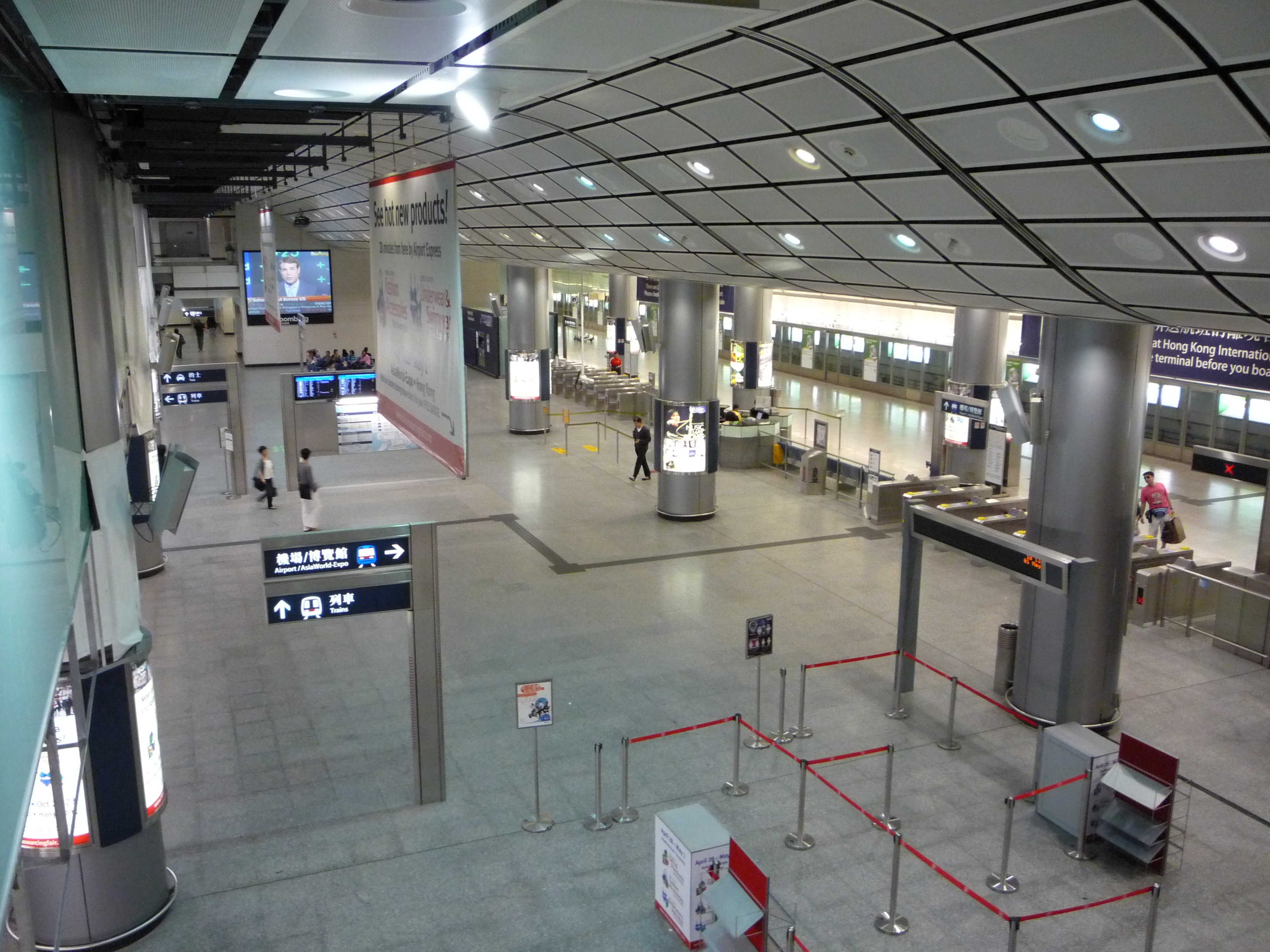 MTR Hong Kong Station Airport Express Concourse and Platform